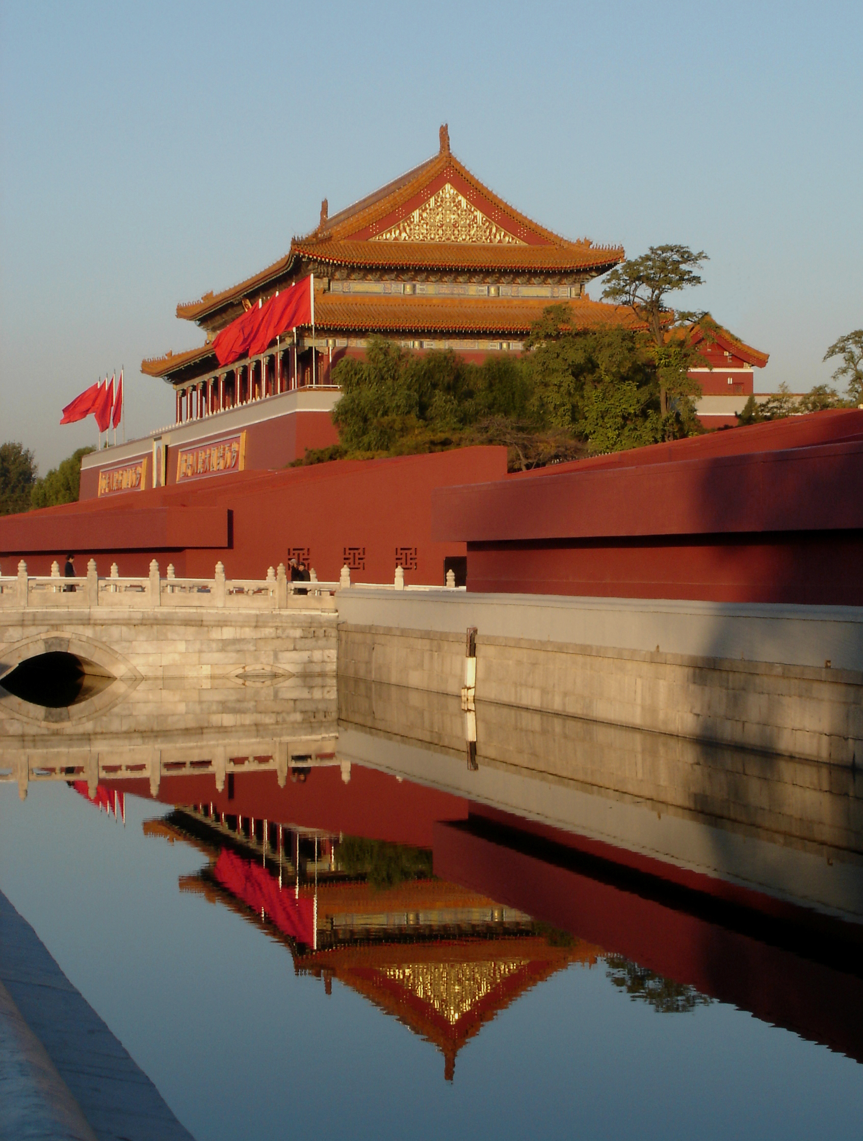 Side view of Tian'anmen gateway showing roof feature, Tian'anmen square, Beijing, China. Photo by And.rew Mandem.aker (Own work), 16 Nov 2004.